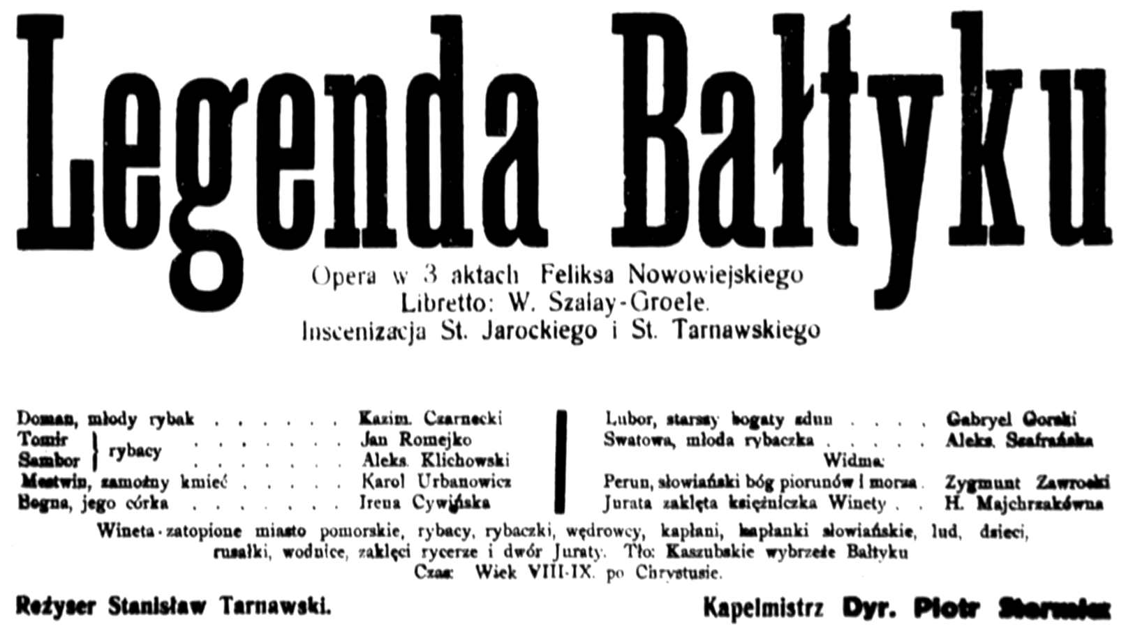 Feliks Nowowiejski - Legenda Bałtyku - part of the poster from the first production - Poznań 1924